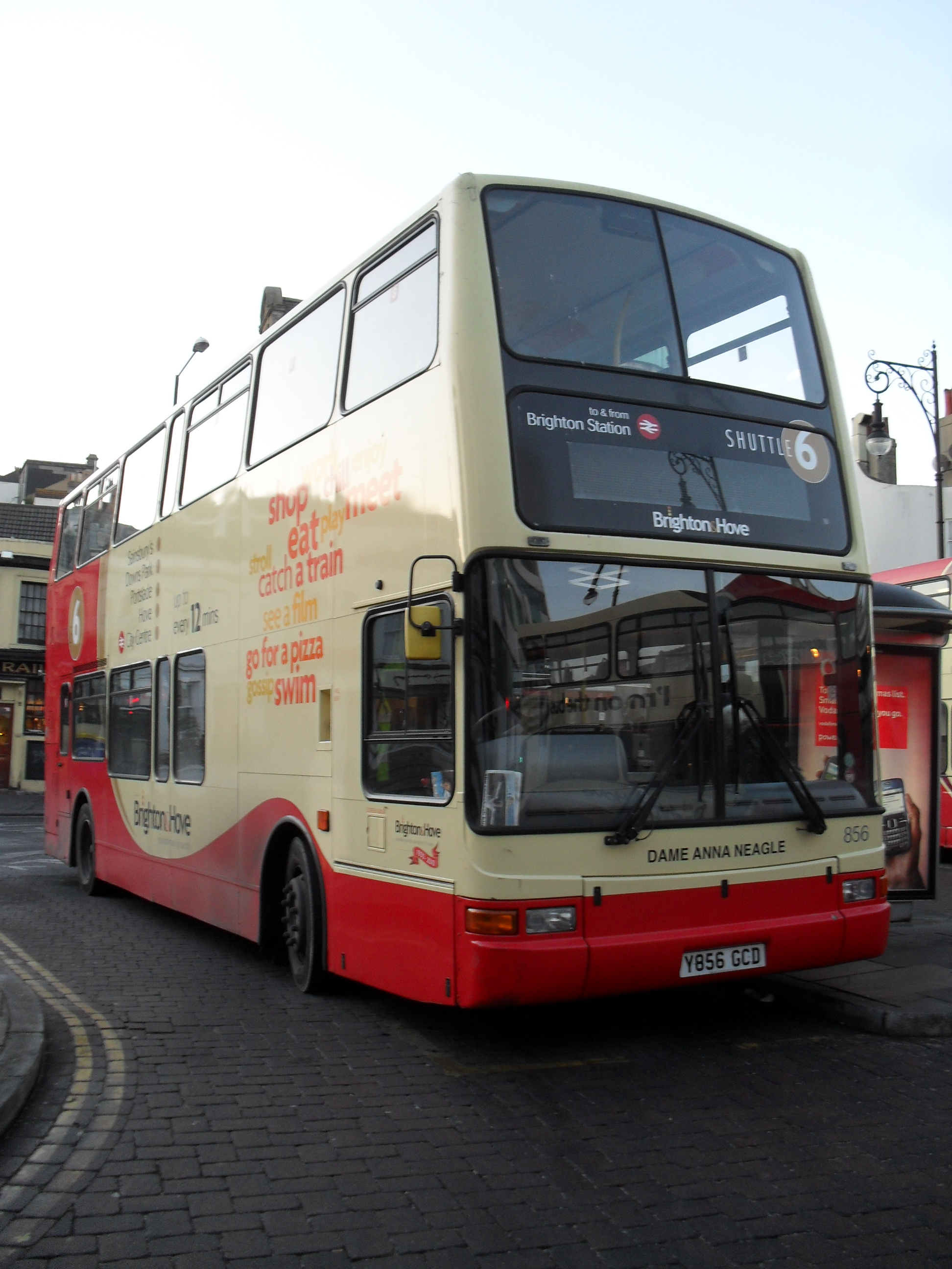 Brighton & Hove 856 Dame Anna Neagle (Y856 GCD), a Dennis Trident/Plaxton President, in Brighton Station, Brighton, East Sussex on route 6.